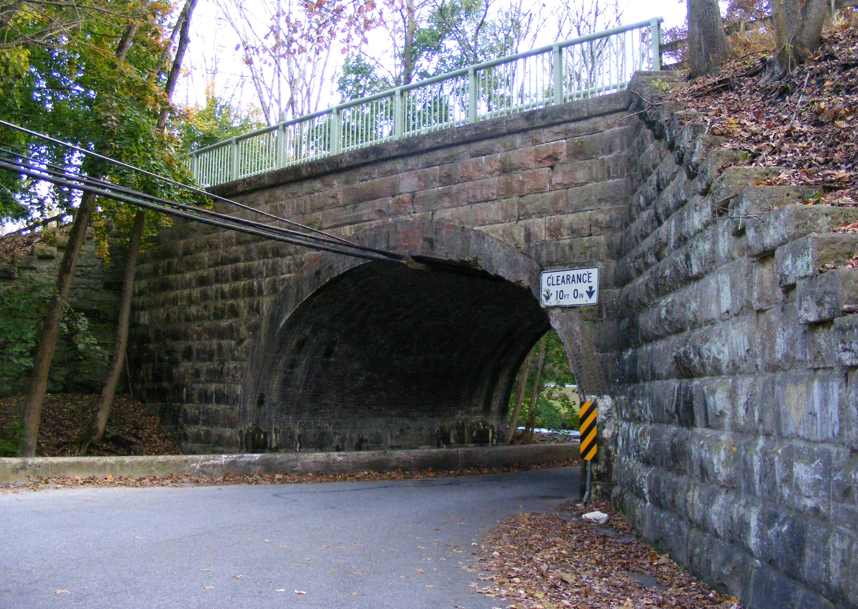 Bridge 182+42, Northern Central Railway, Shrewsbury Township, near Town Of Railroad, Pennsylvania. Listed on National Register of Historic Places in York County, PA